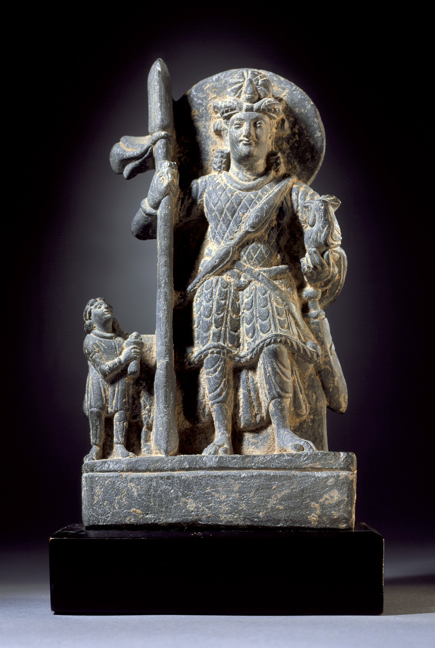 Pakistan, Peshawar Division, Gandhara region, 2nd century Sculpture Gray schist Gift of James H. Coburn III (M.85.279.3) South and Southeast Asian Art